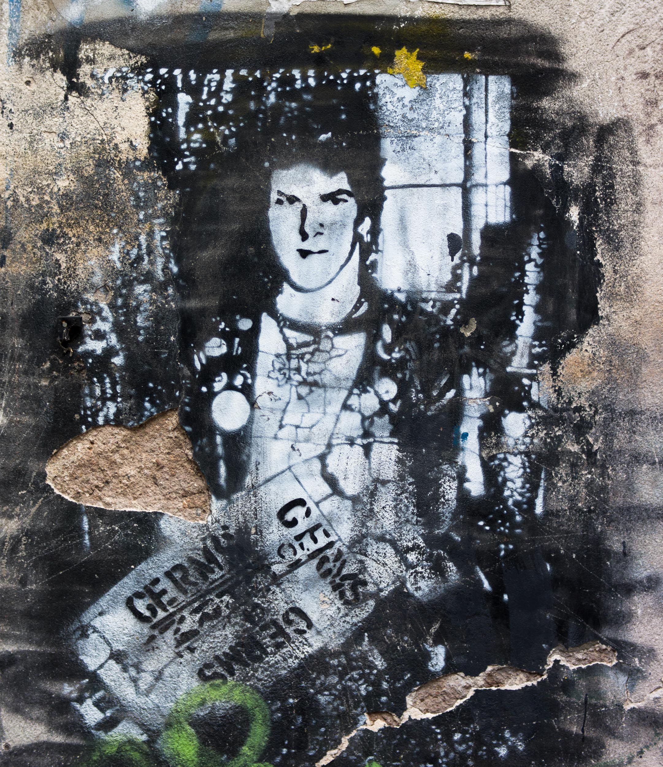 Darby Crash stencil art in Buenos Aires